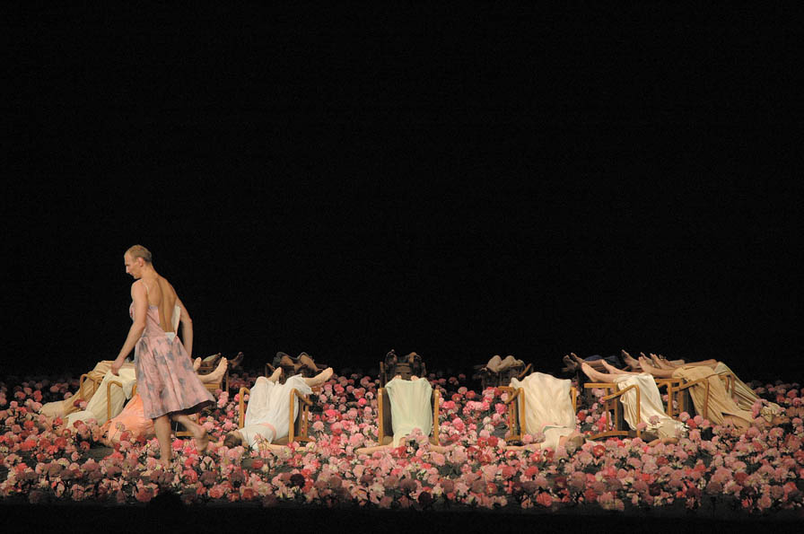 Cravos, by choreographer Pina Bausch.